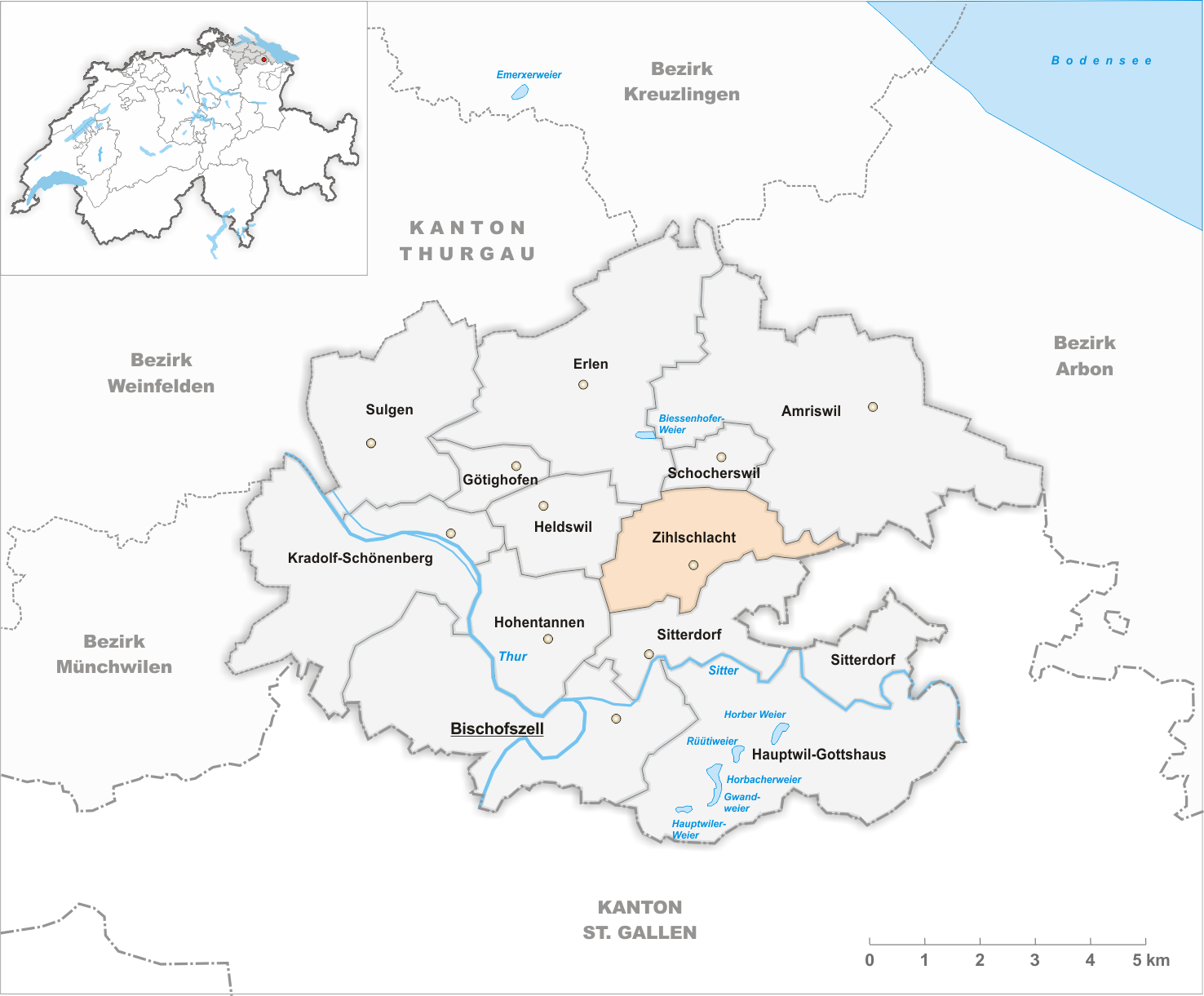 Municipality Zihlschlacht